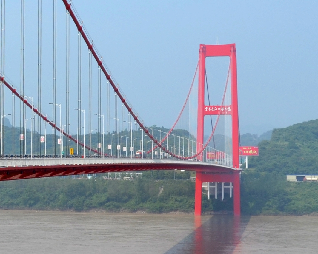 The Yichang Bridge over the Yangtze River in Hubei province, China